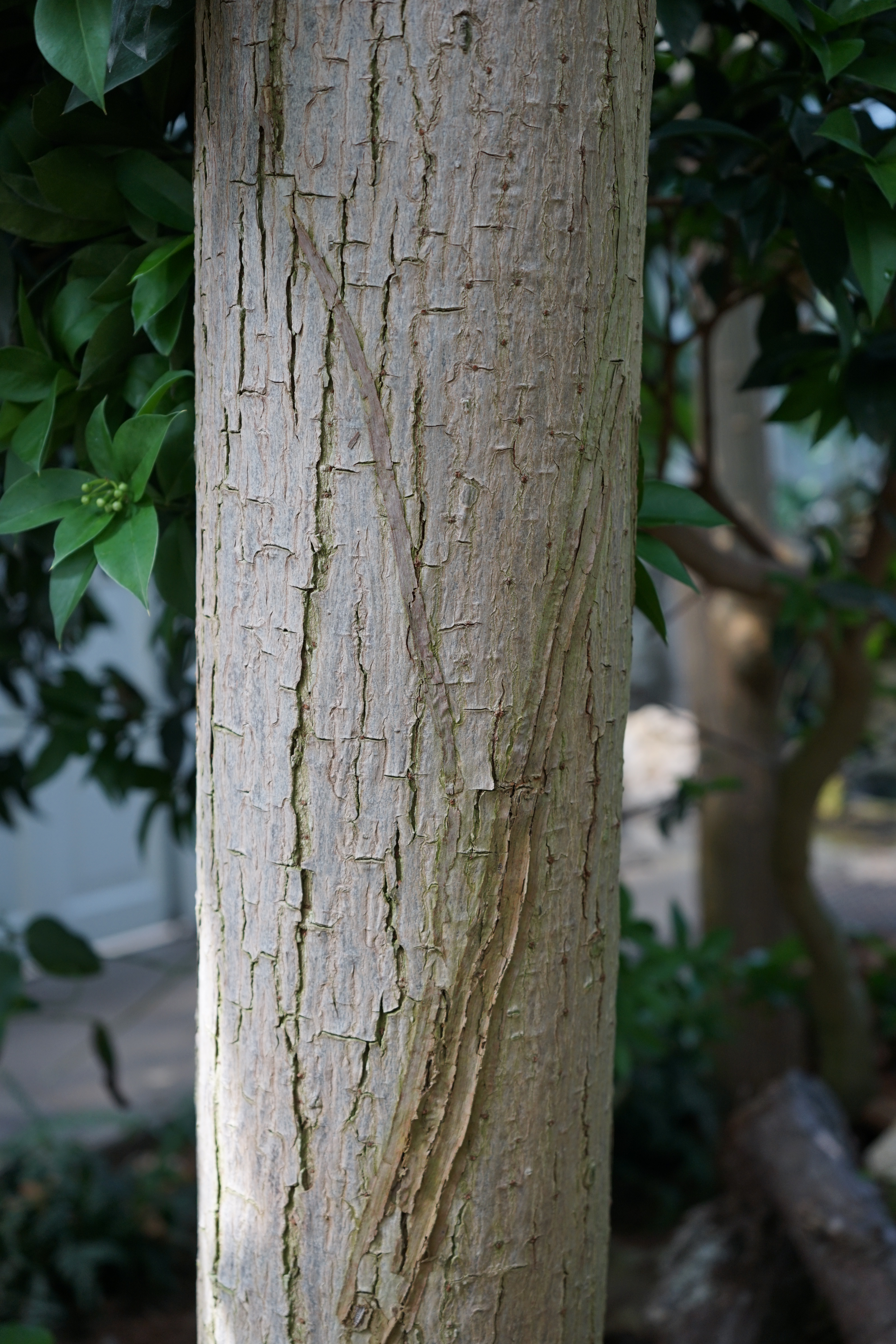 Close-up of the trunk of the tree Cedrela odorata